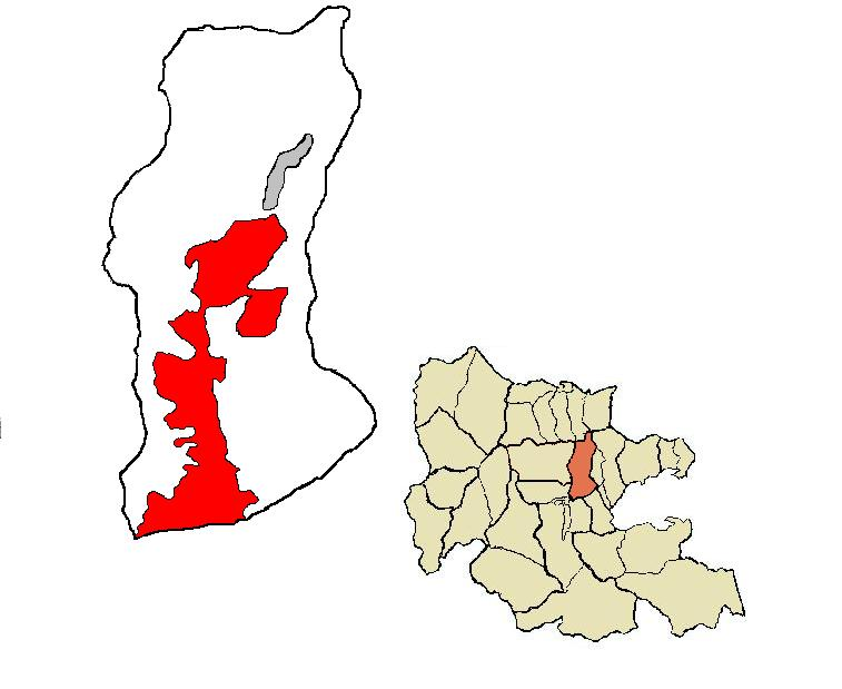 Map of city of San Diego, Carabobo State, Venezuela